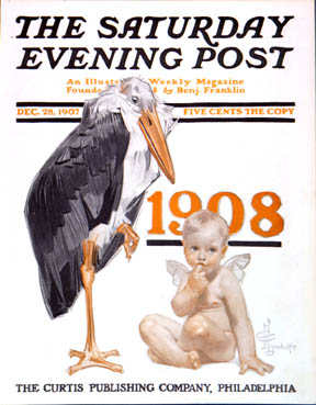 An illustration by J. C. Leyendecker showing a newborn baby and stork ushering in the New Year